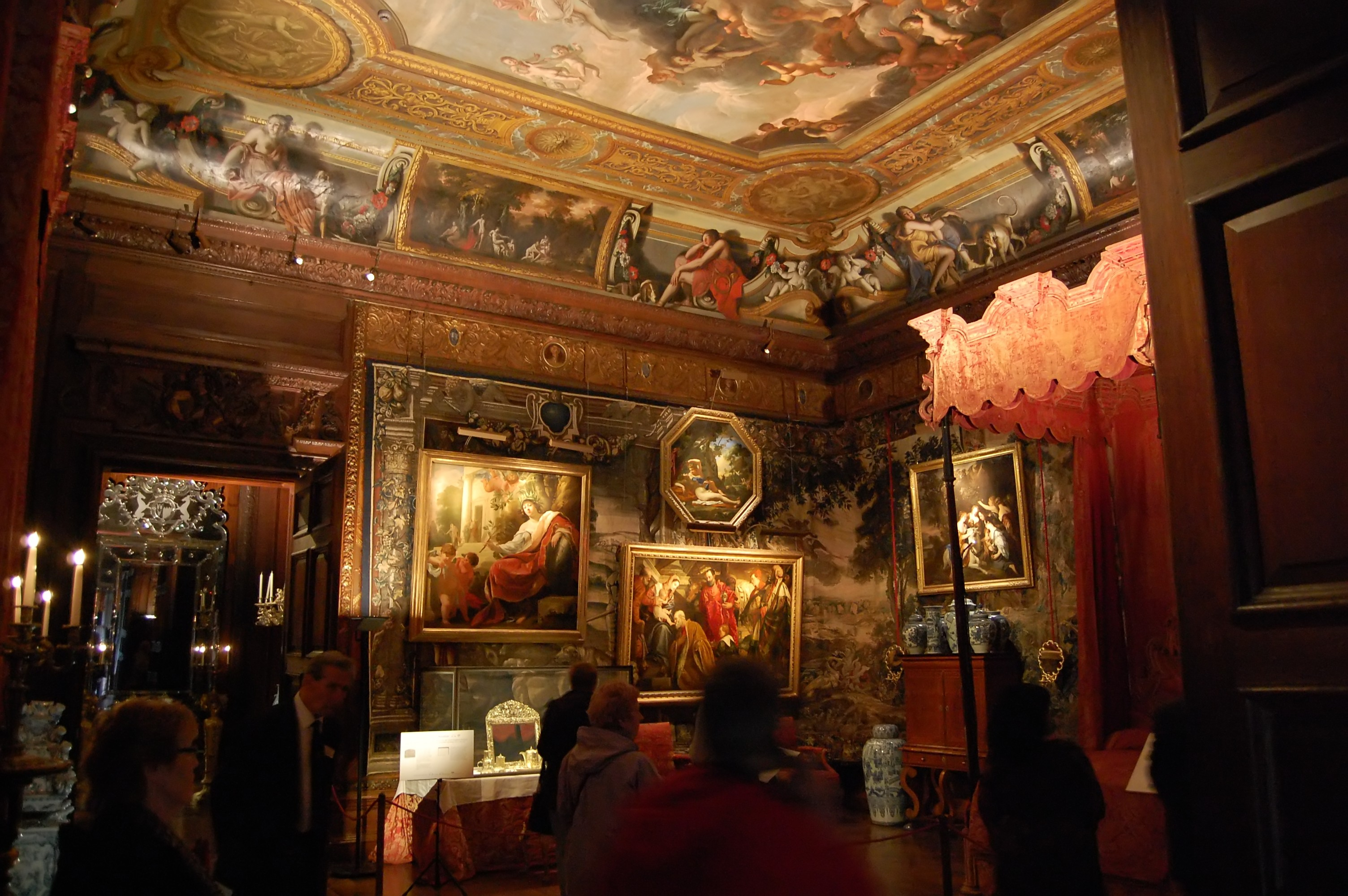 One of the ornate bedrooms of Chatsworth House.